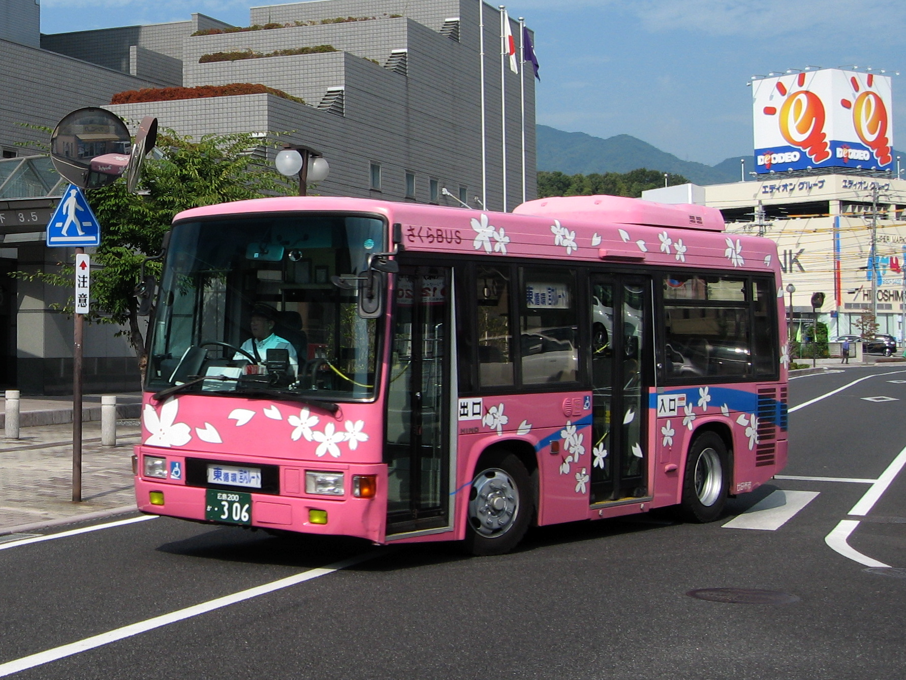 Hatsukaichi City Community Bus "Sakura Bus" at Hatsukaichi City Hall Complex, Hatsukaichi, Hiroshima, Japan